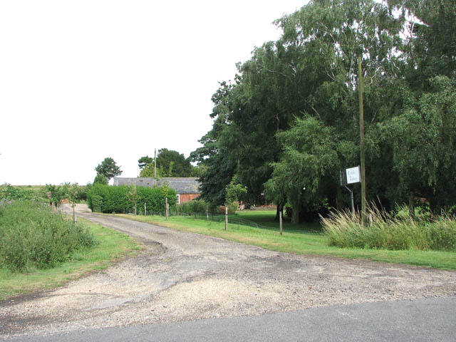 Driveway to Crabb's Abbey Crabb's Abbey appears to be a manor house which stands on the site of a former priory, nothing of which remains to be seen on the ground.